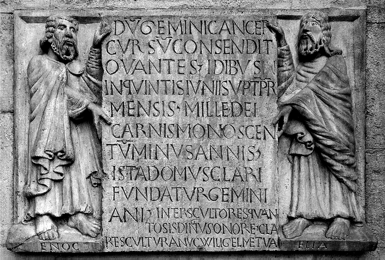 Plaque on the west facade of Modena Cathedral dedicating the church to Saint Geminianus (Gimignano). The postscript, in smaller letters, praises the skill of Wiligelmo, the principal sculptor of the carvings on the church exterior; see inscription below.